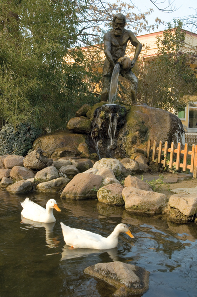 Statue of Ahmet Bedevi, alias Manisa Tarzan, a pioneering environmentalist and a notable past resident of Manisa, Turkey